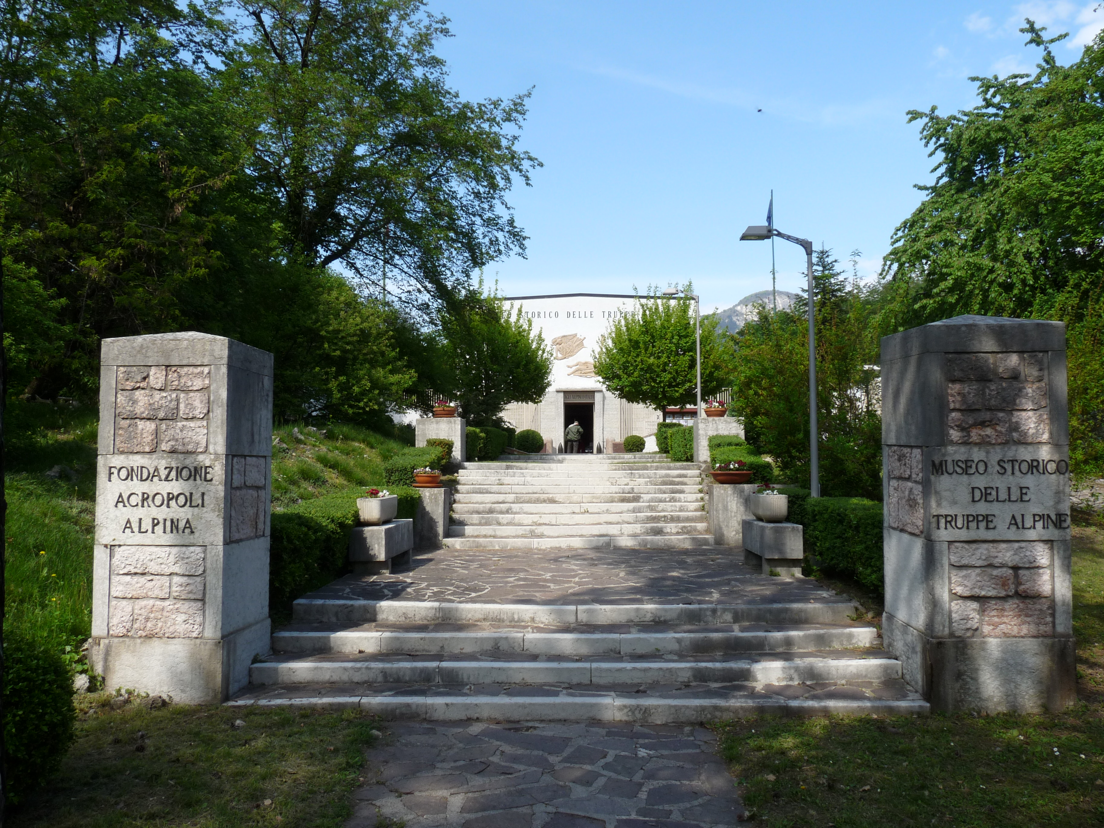 Trento (Italy): the historical museum of the alpine troops on the top of Doss Trento